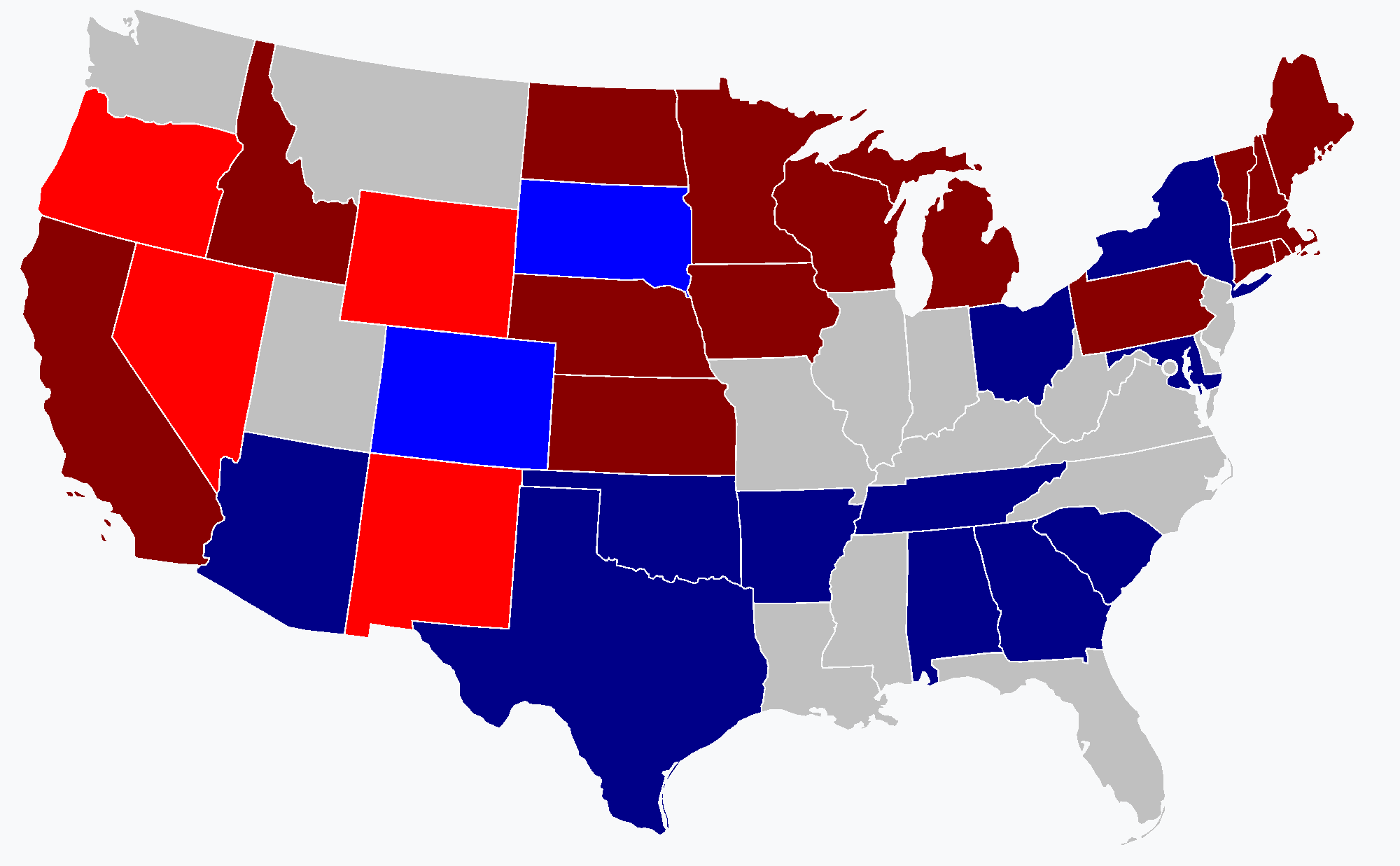 A map showing the results of the 1926 United States Gubernatorial elections